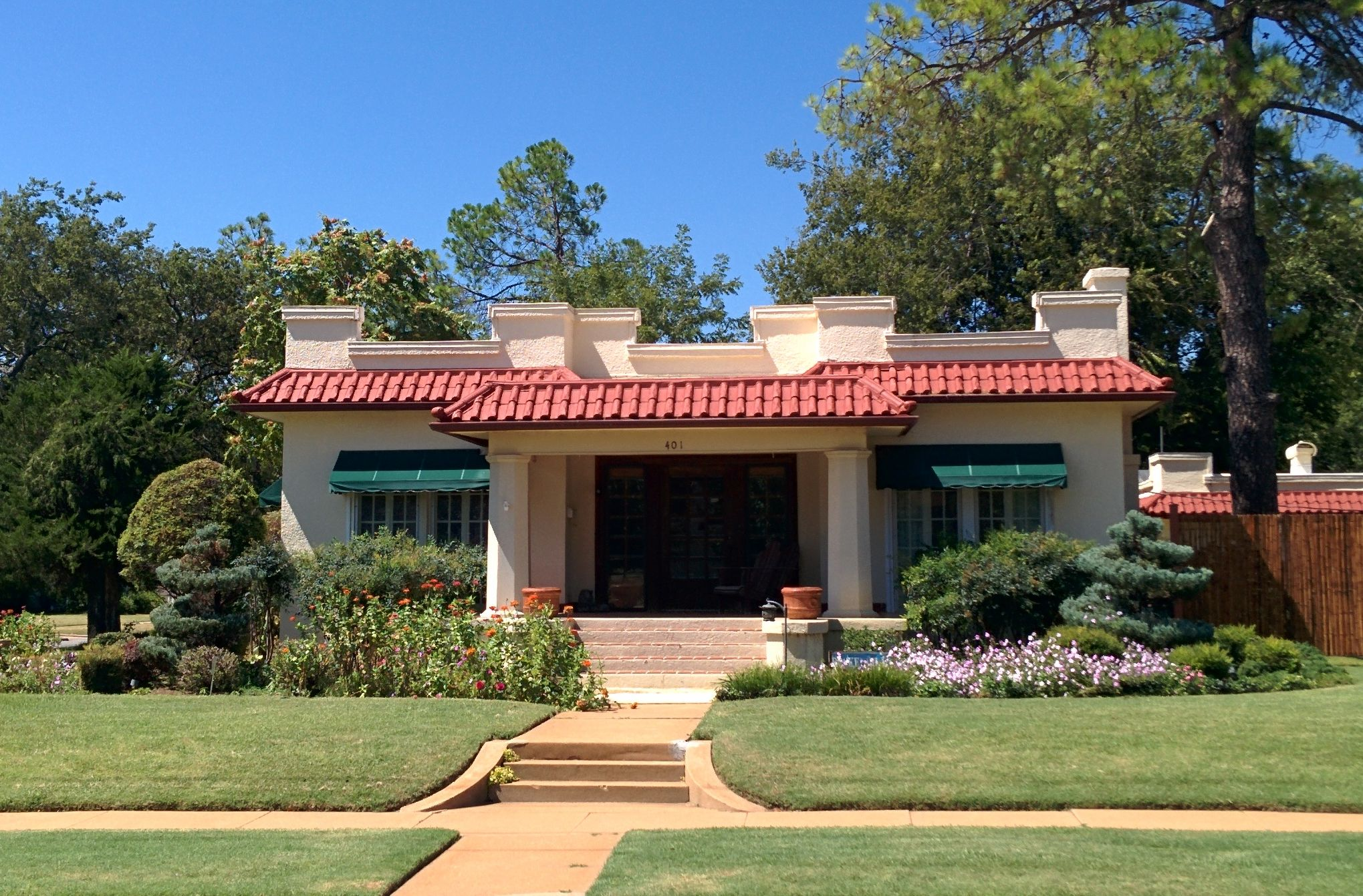 Louis B. Simmons House